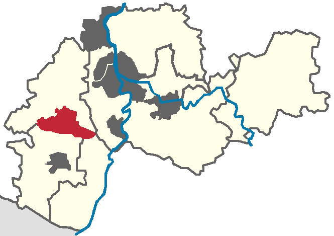 Neustadt in the Rhine Neckar Area (Rhein-Neckar-Dreieck) in Germany